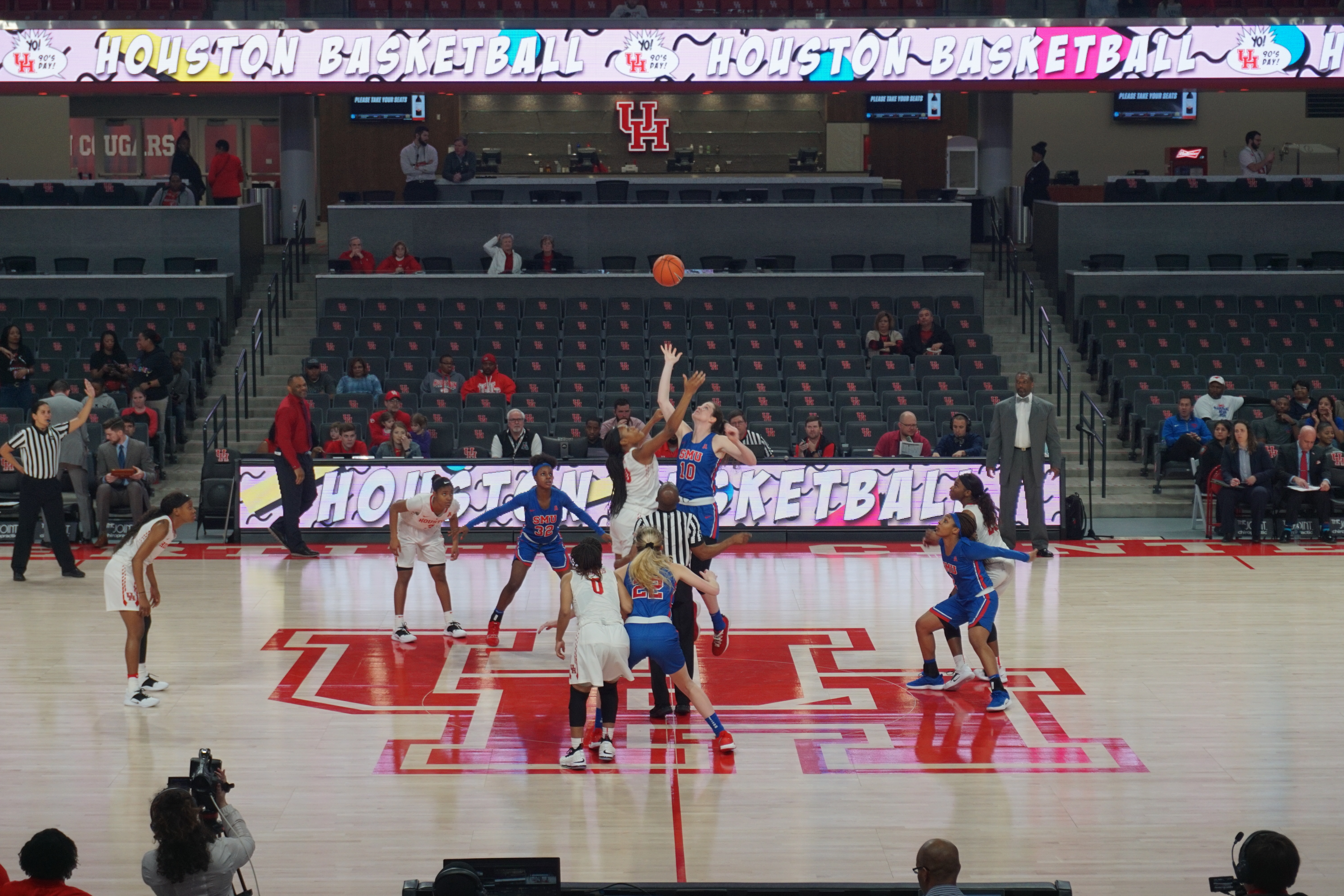 In-game action during the Southern Methodist Mustangs vs. Houston Cougars women's basketball game at the Fertitta Center in Houston, Texas (United States). Houston won 69–68 in overtime.